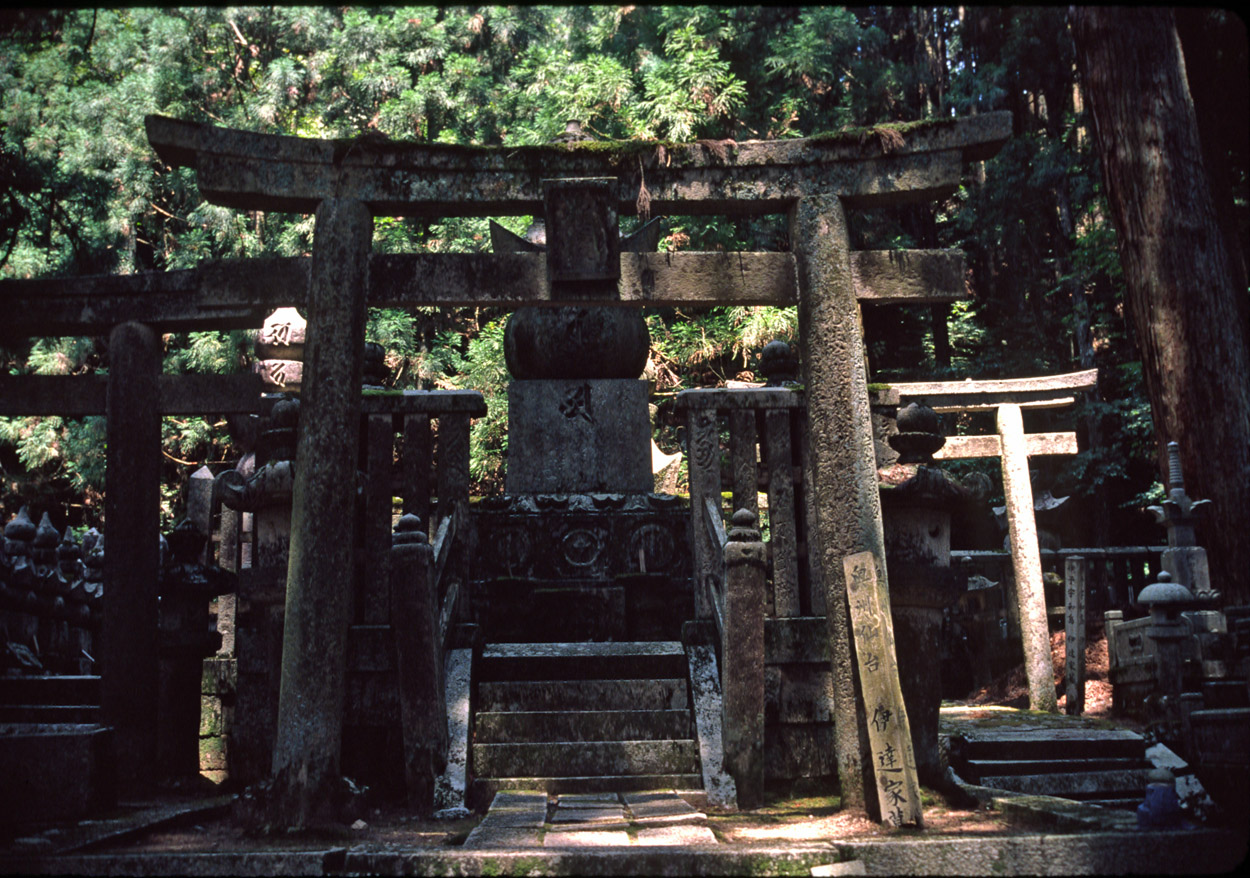 Grave of Date clan of Sendai Oshu Mutsu province Miyagi Prefecture. Grave located at Mt. Koya, Wakayama Prefecture, Japan. I took the photo.